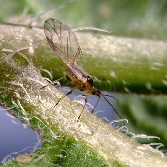 Winged form of the peach-potato aphid Myzus persicae.